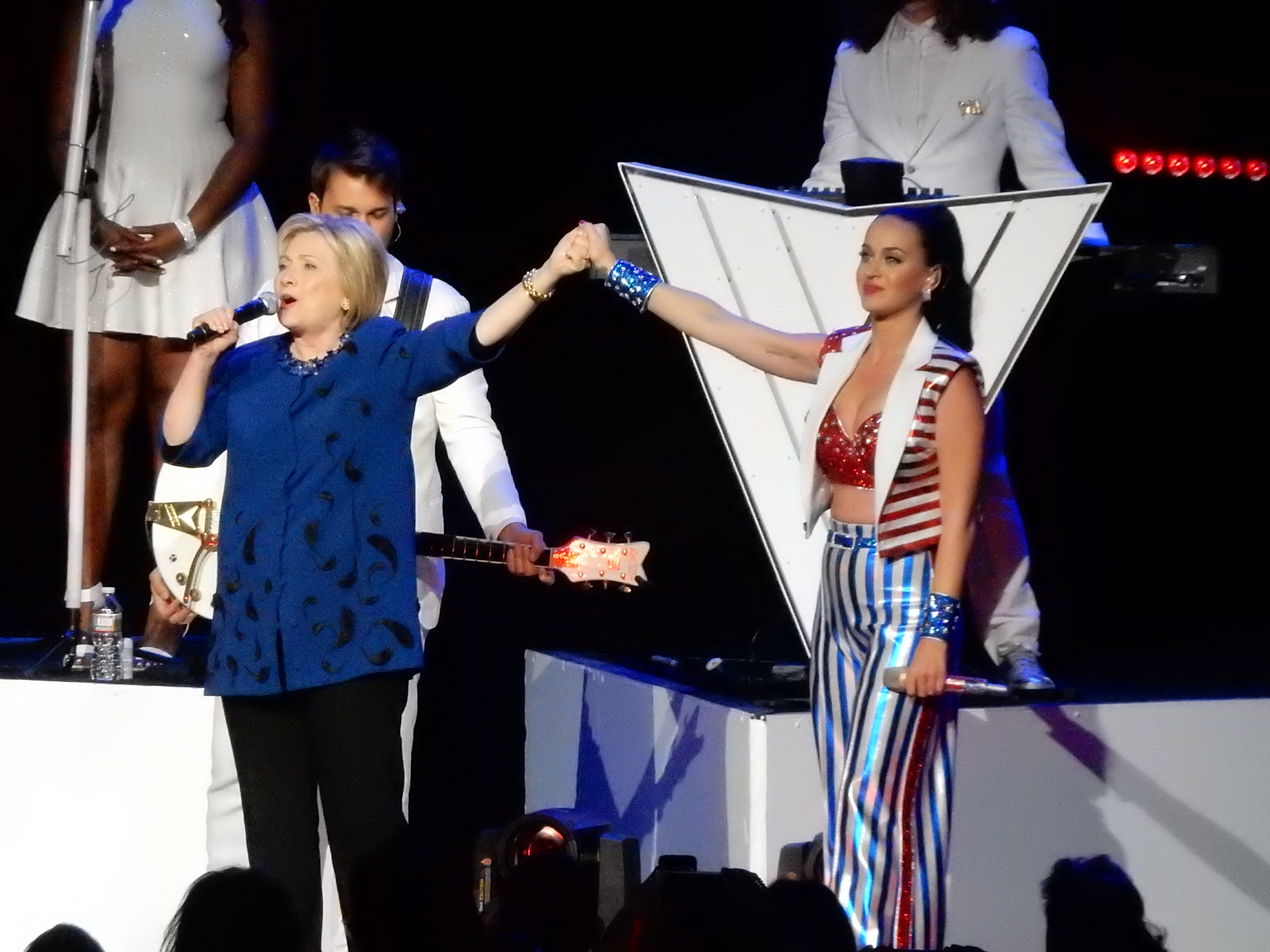 Hillary Clinton With Katy Perry At The I'm With Her Concert for Hillary Clinton at Radio City Music Hall